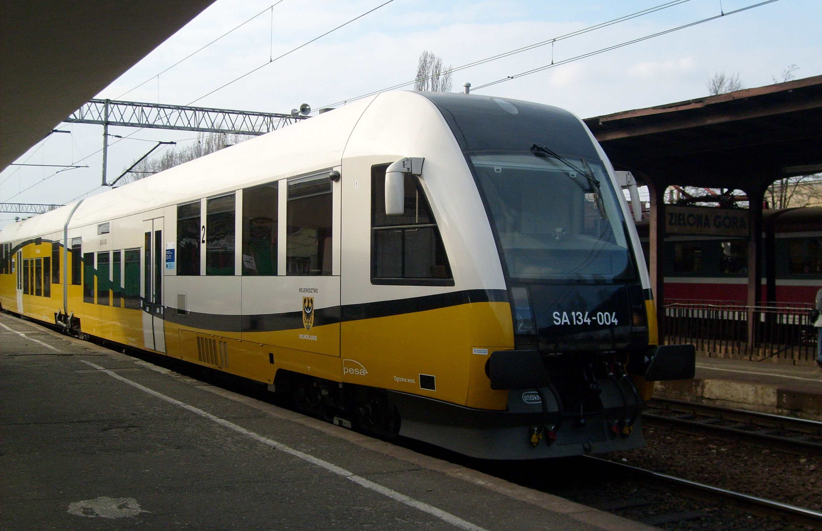 DMU SA134-004 in Lower Silesian Voivodeship livery